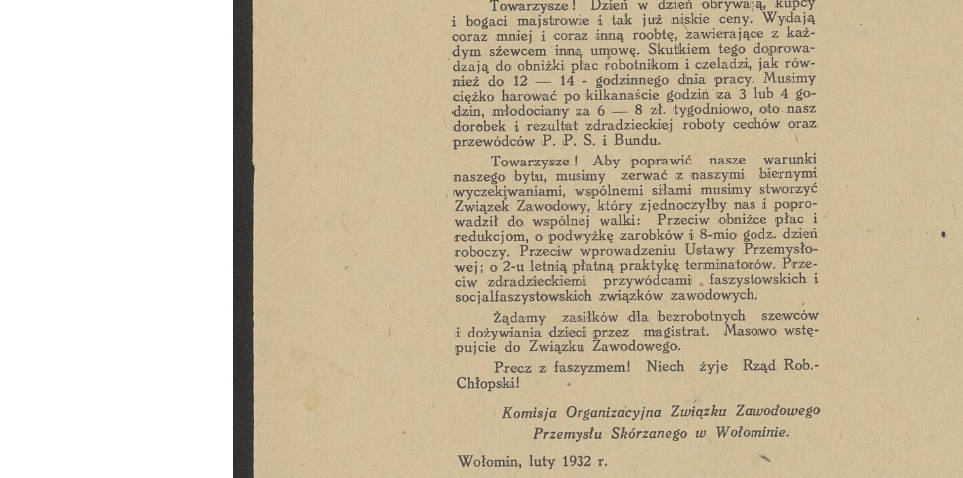 Appeal of the trade union committee of the leather industry in Wołomin